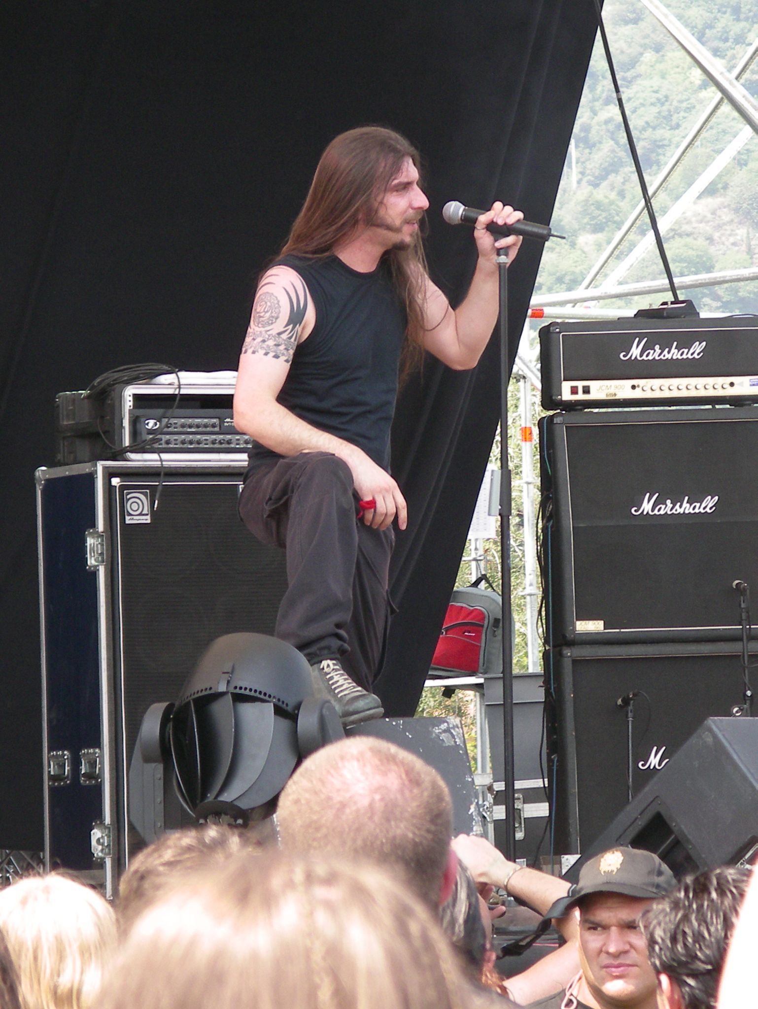 Mike Lunacy performing as a part of Dark Lunacy at Evolution Fest in Toscolano-Maderno, Italy.